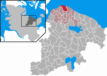 This map shows the area of the Gemeinde (municipality) Wisch in the Kreis (district) Plön, Schleswig-Holstein, Germany.